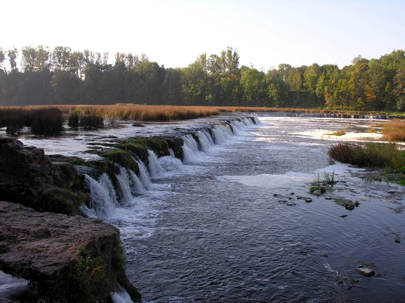 Waterval of Venta in Kuldiga